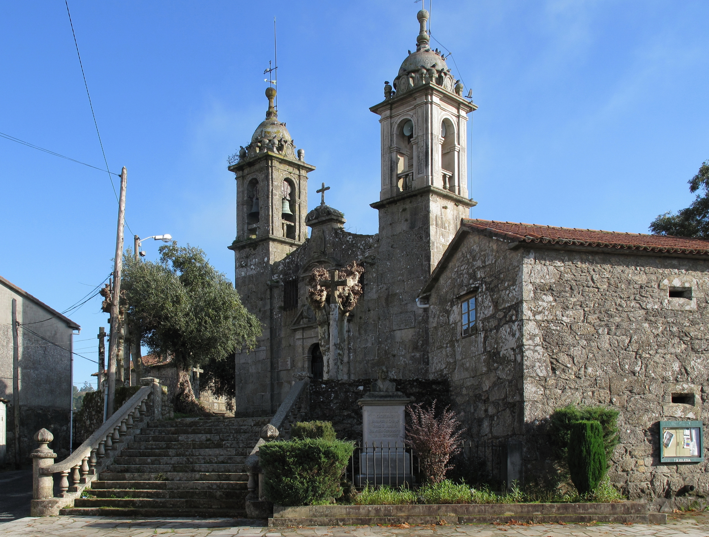 Cacheiras, Teo, Galicia